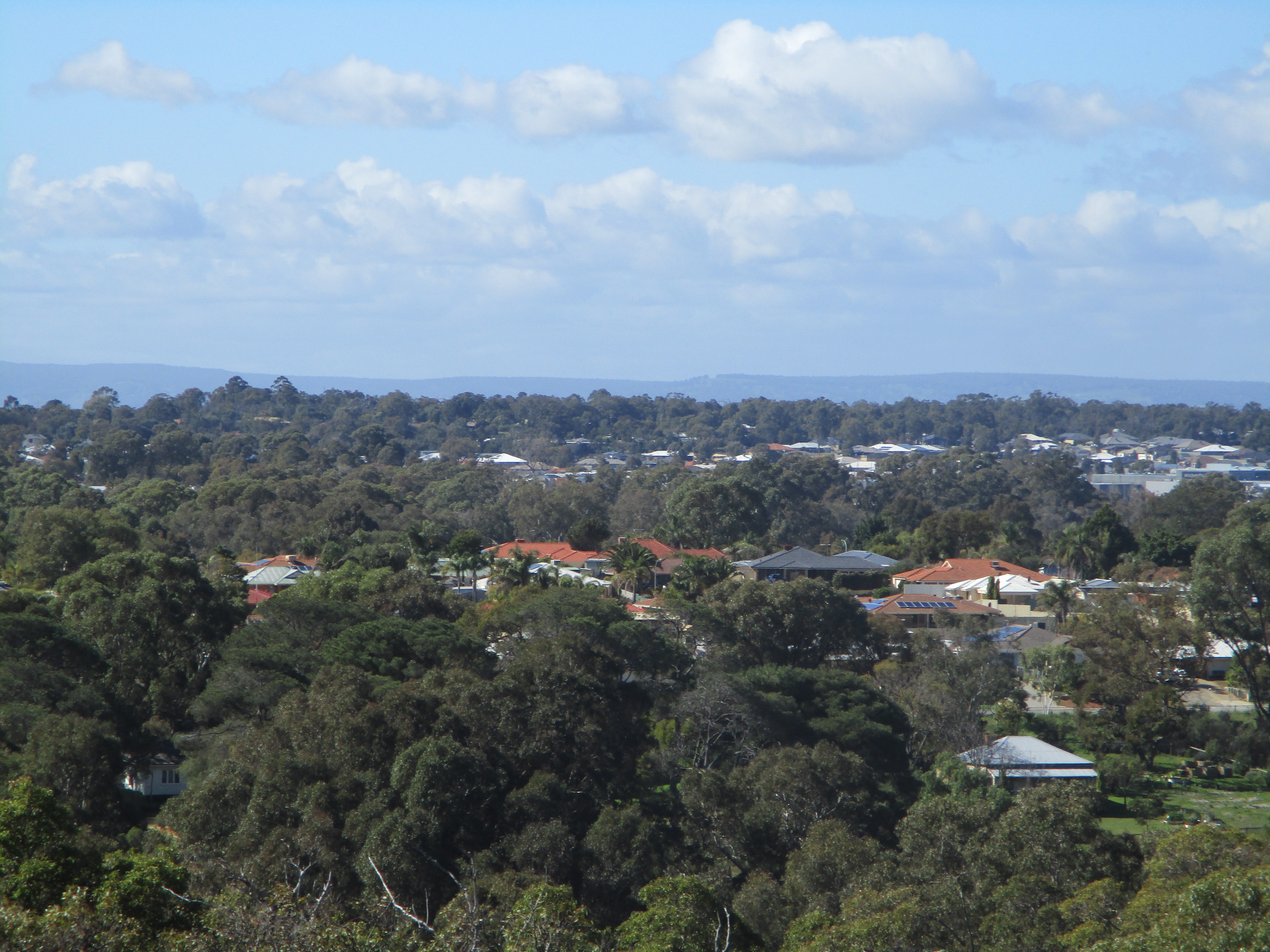 The view from Kwinana Lookout, Leda, Western Australia. Looking north-east, over the Kwinana suburbs of Leda and Calista.